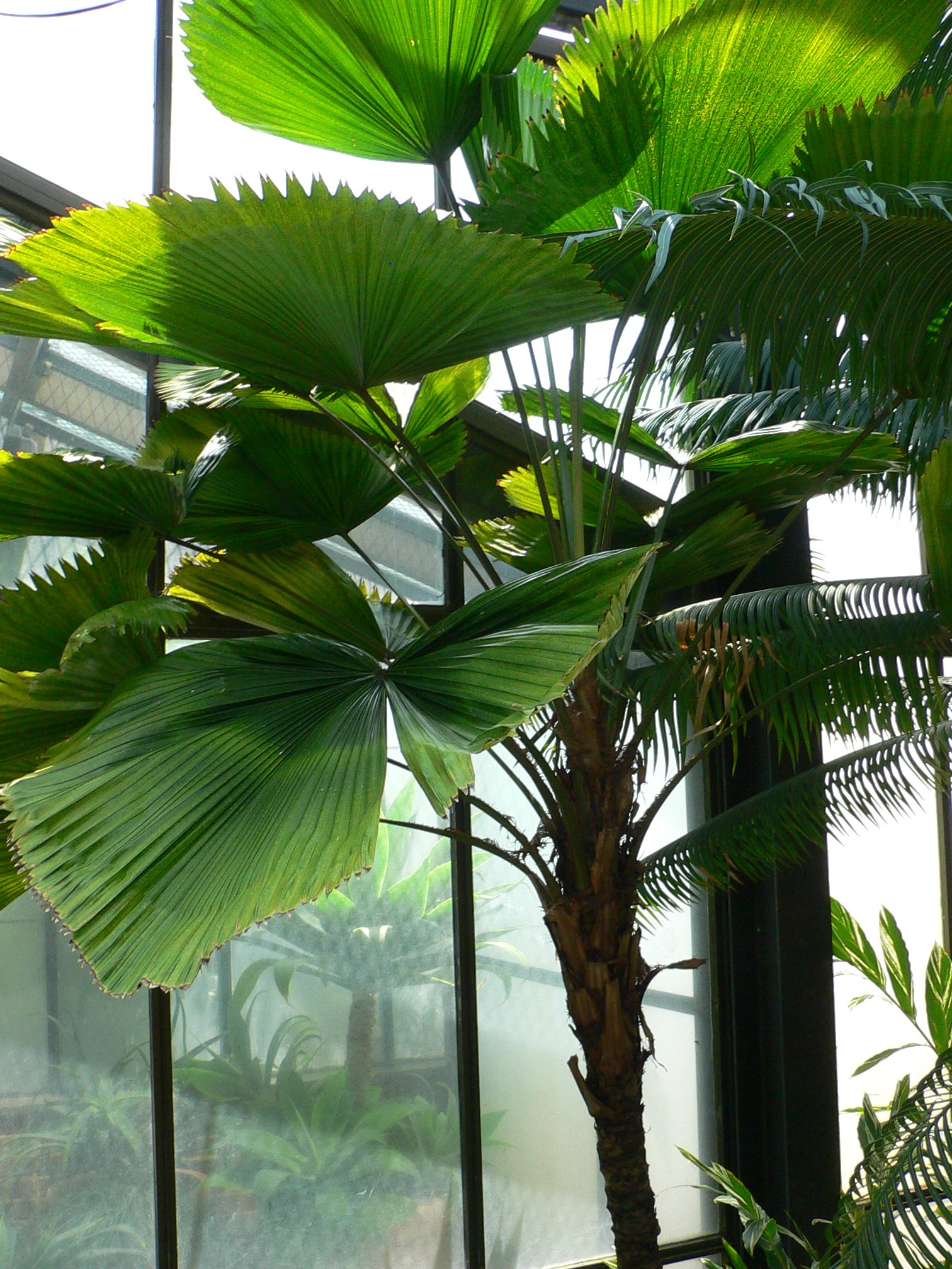 Pictures taken by myself at Longwood Gardens